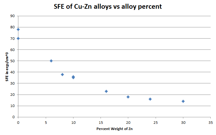 This graphs show how the SFE of Cu-Zn alloys steadily decreases with increasing weight percent Zn.